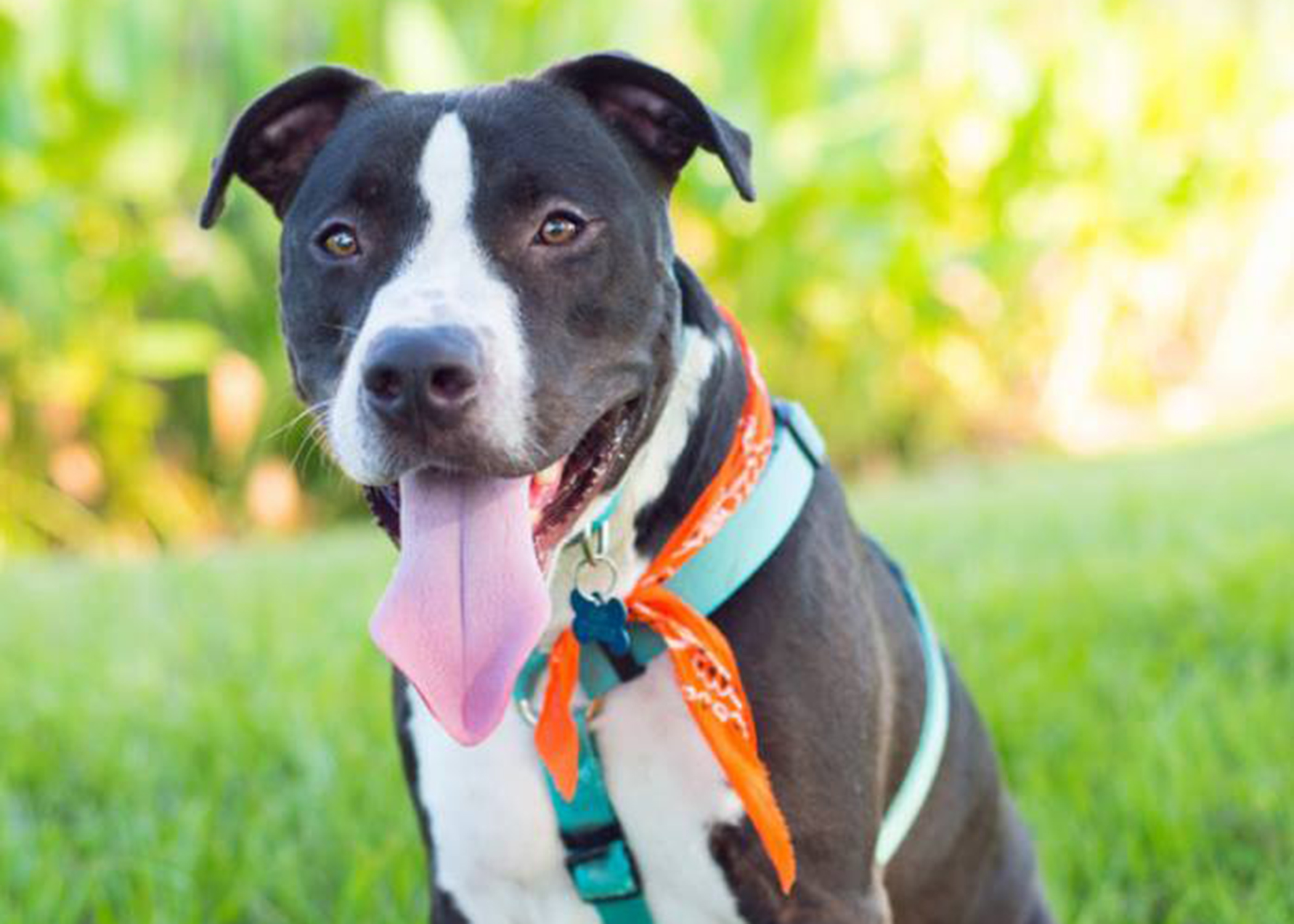 Cute dog needs a new home. Maybe yours?